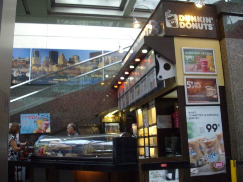 Dunkin' Donuts photographed in Montreal, Quebec, Canada at Place Ville-Marie.